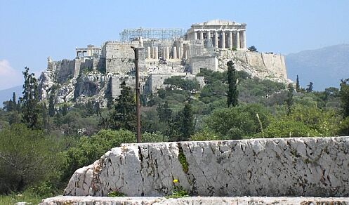 Photo of the Pnyx, a hill in central Athens, Greece.